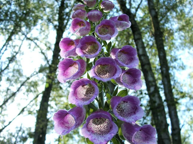 Foxglove (Digitalis purpurea). This plant was growing close to the edge of the Devil's Pulpit (a deep gorge): 831079. As is well known, it is poisonous, containing digitoxin (which can be used to treat certain heart conditions, though with the disadvantage that the difference between an ineffective dose and a fatal one is rather narrow). It also contains digoxigenin, a compound with important applications in molecular biology. Inside a foxglove flower, on the upper surface, two yellow rod-shaped pollinia (pollen-bearing structures) are visible. Bumble-bees can often be seen going in and out of foxglove flowers; the pollinia deposit some pollen on their backs. For some other common but very poisonous plants, see 963809 and 1014884.